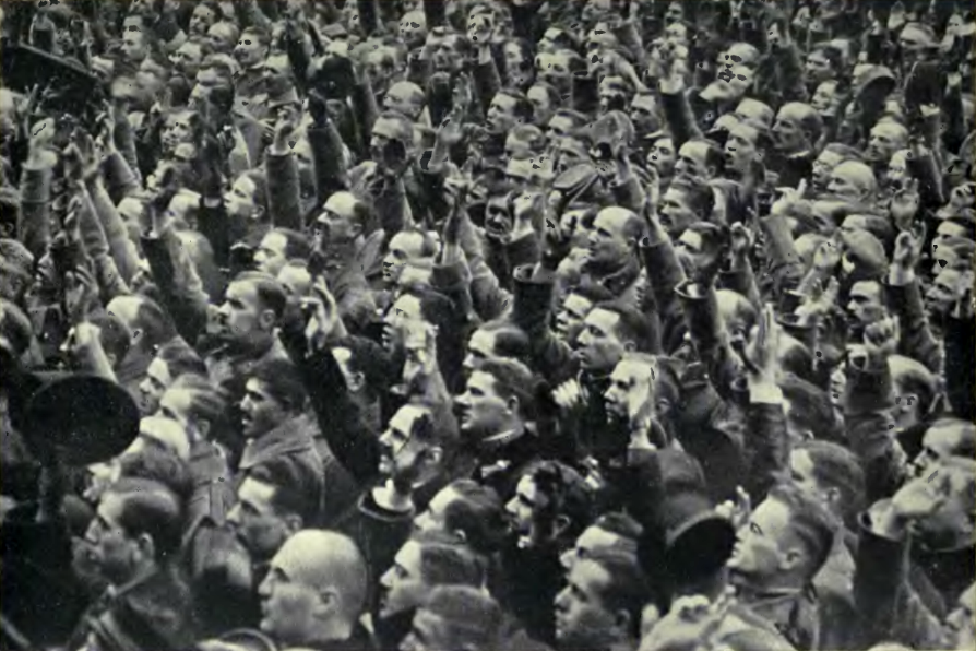 Soldiers taking the oath of fidelity to the new National Council, late 1918, Hungary.